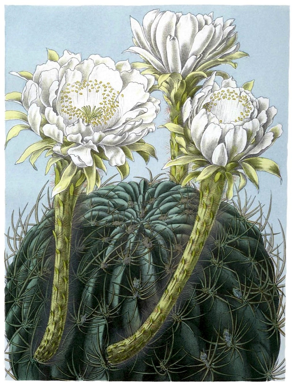 Echinopsis obrepanda ssp. obrepanda